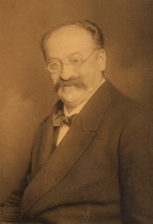 Heinrich Schenker (1868–1935), Austrian music theorist, music critic, teacher, pianist, and composer.